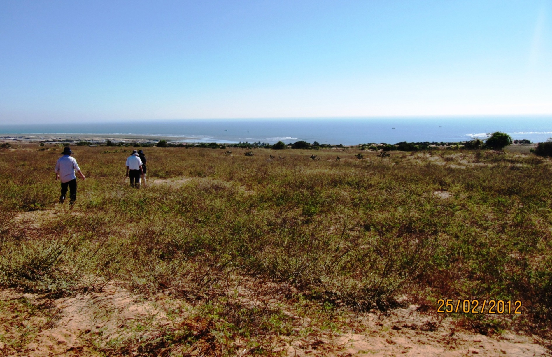 The sunny and dry land of Phuoc Dinh commune in Ninh Thuan province, site of the nuclear power plant proposal in 2012, now (2019) switched to a photovoltaics farm.